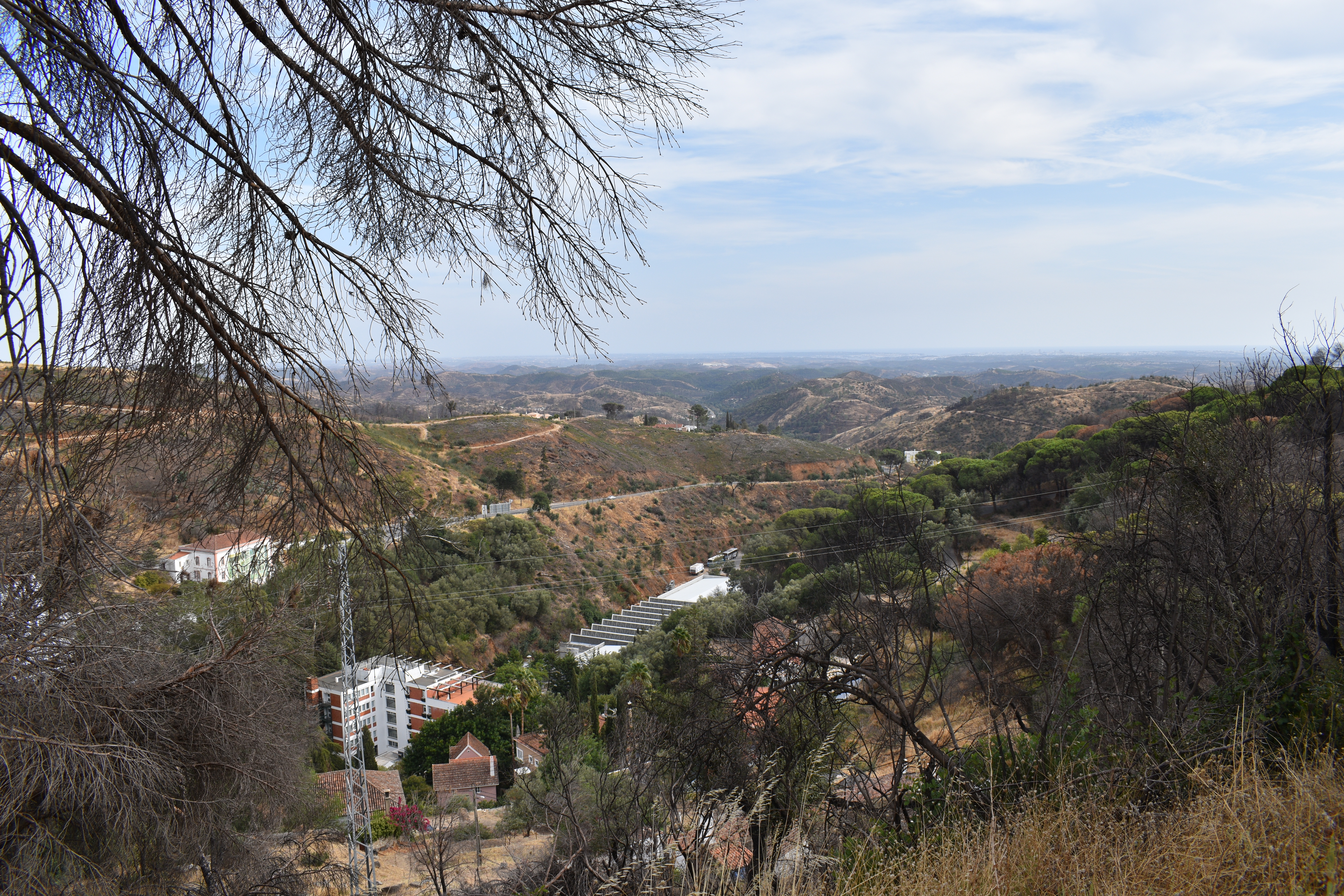 Caldas de Monchique, Algarve - Southern Portugal. Photo taken on 19/09/2019.